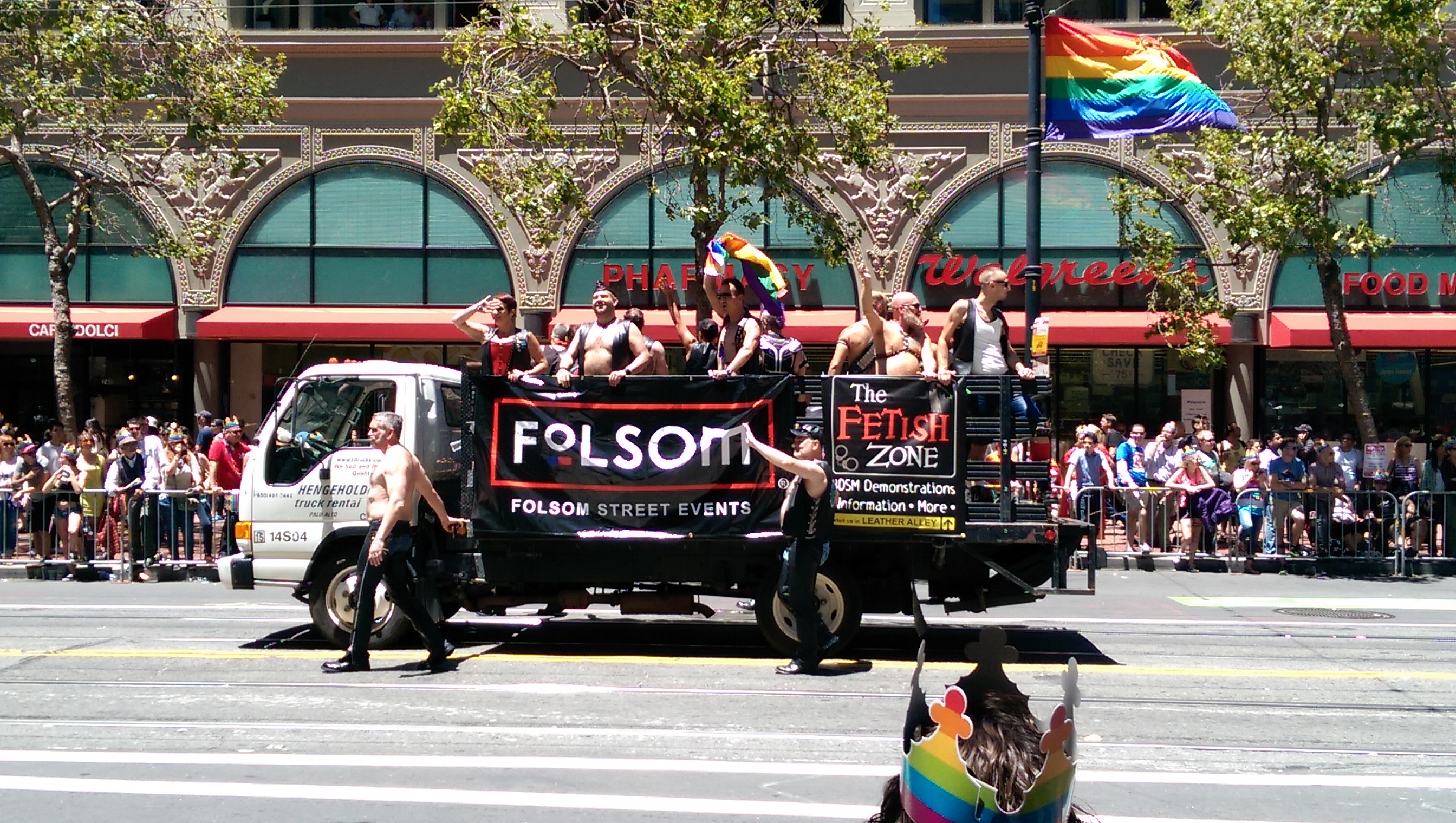 Promotion of Folsom Street Fair during San Francisco Pride 2014